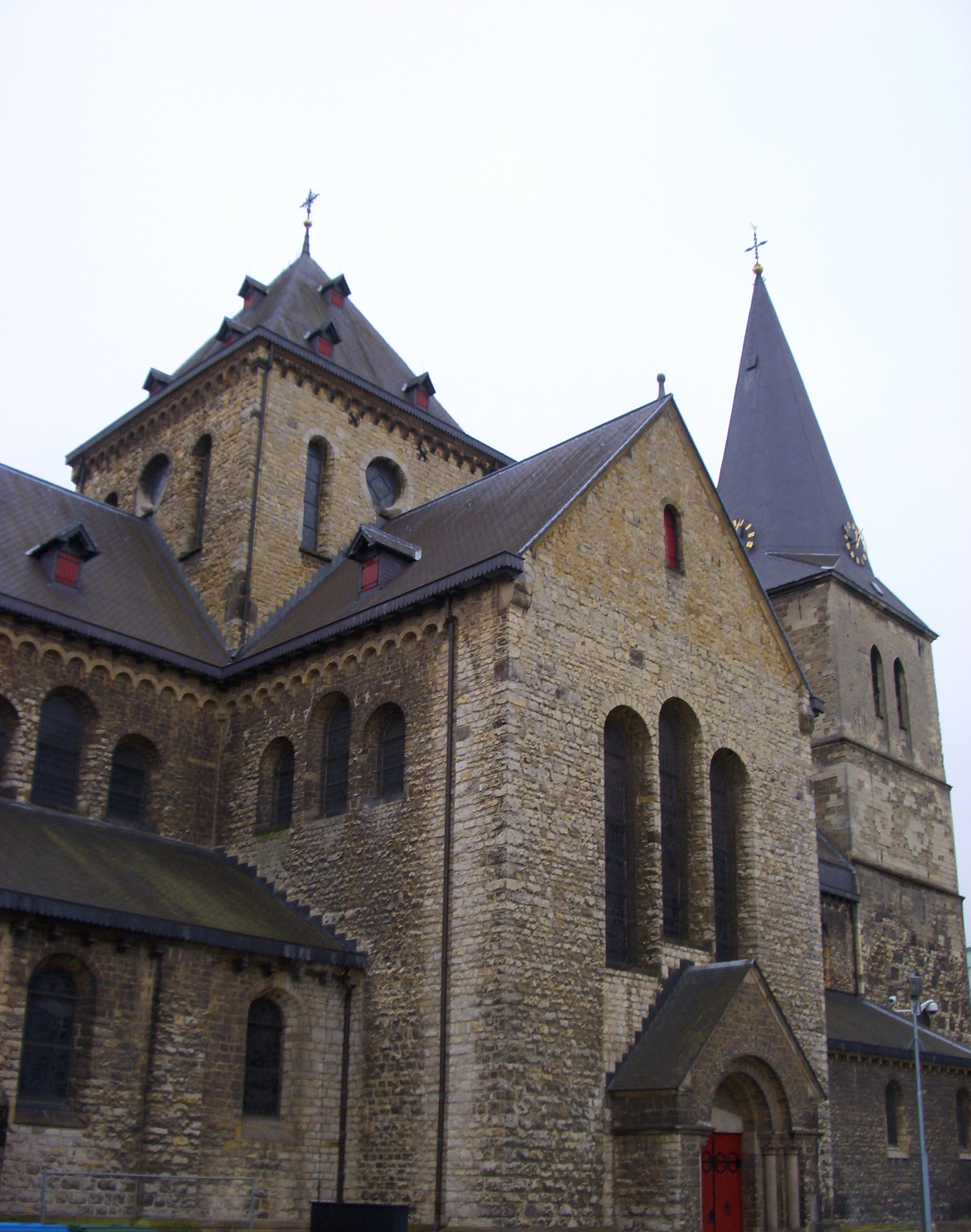 This picture of the Pancratiuskerk was taken by me, Maarten van Wesel, in Heerlen